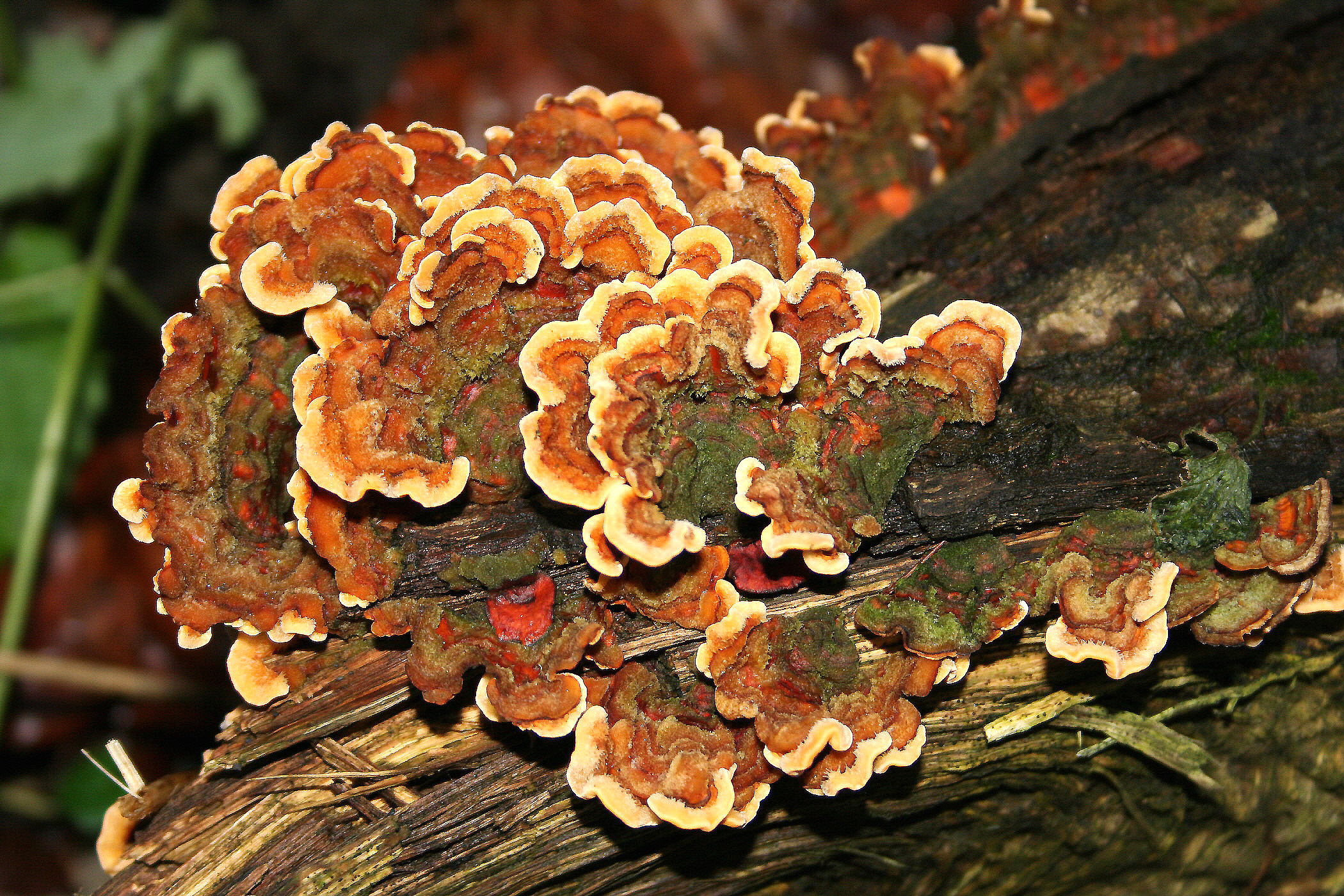 Bleeding Oak Crust